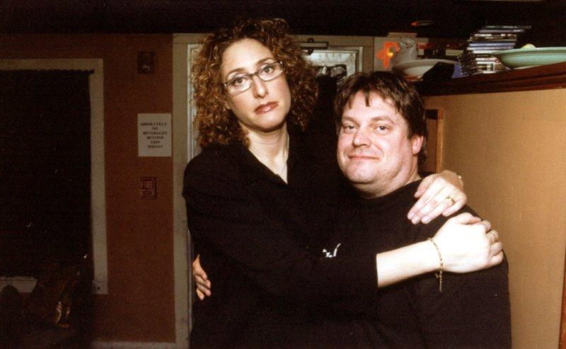 John Machnik with Judy Gold during the recoding for "Judith's Roommate Had a Baby"